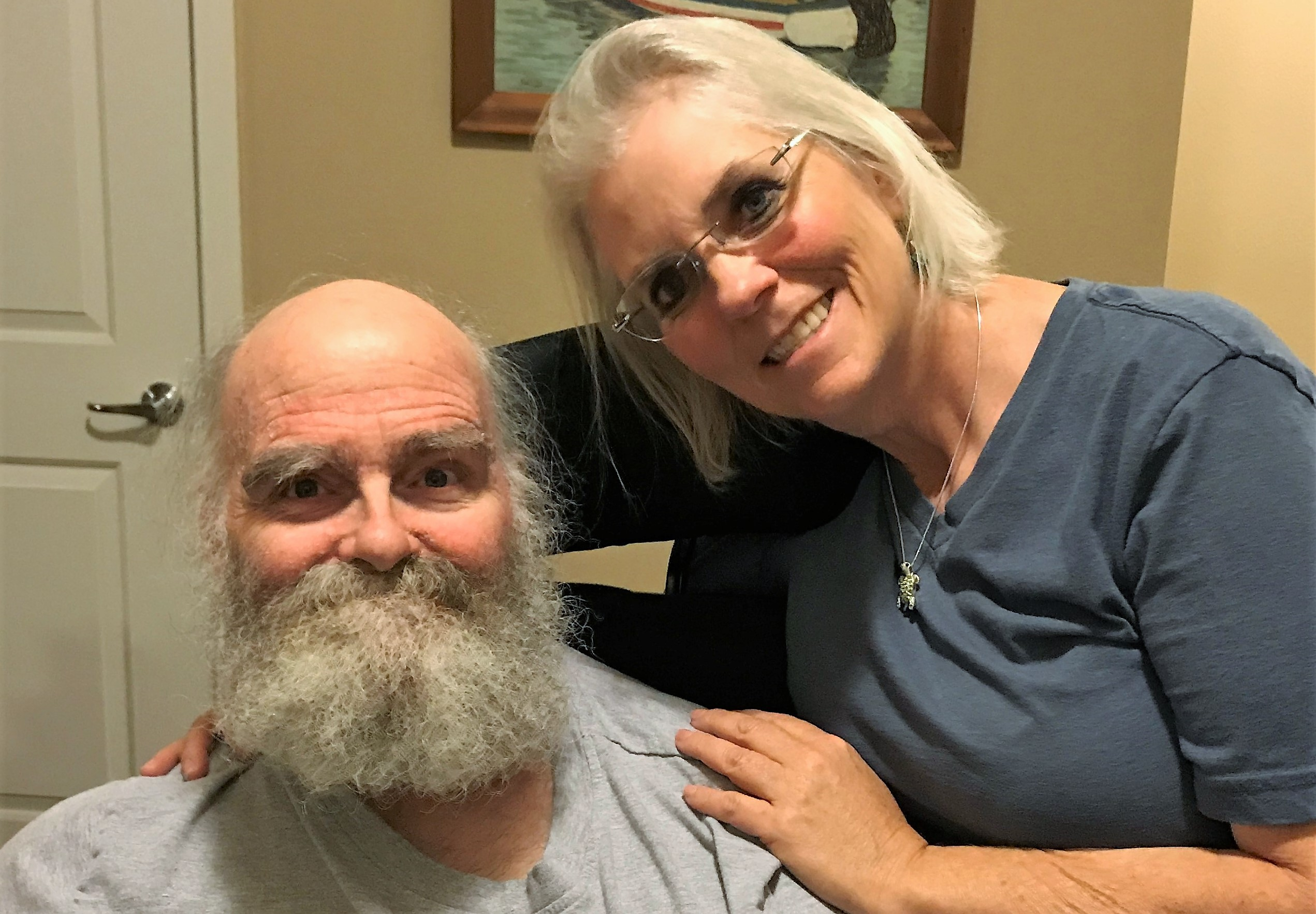 Robert Lancaster & Susan Gerbic 2017 taken in Salem, OR